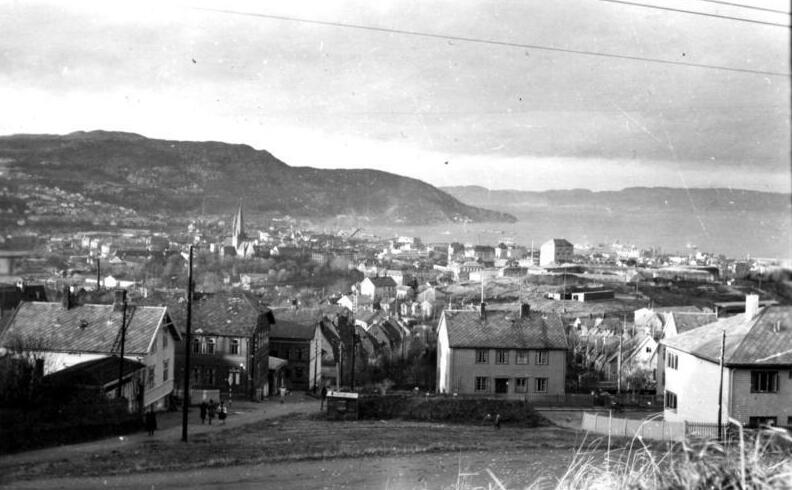 Drontheim vom Stabsgebäude des Polizeiregiments 26 aus gesehen. Nov. 42. Information added by Wikimedia users.Photographer location is at junction of Blusuvolssbakken and Skule Bårdsøns gate, Trondheim